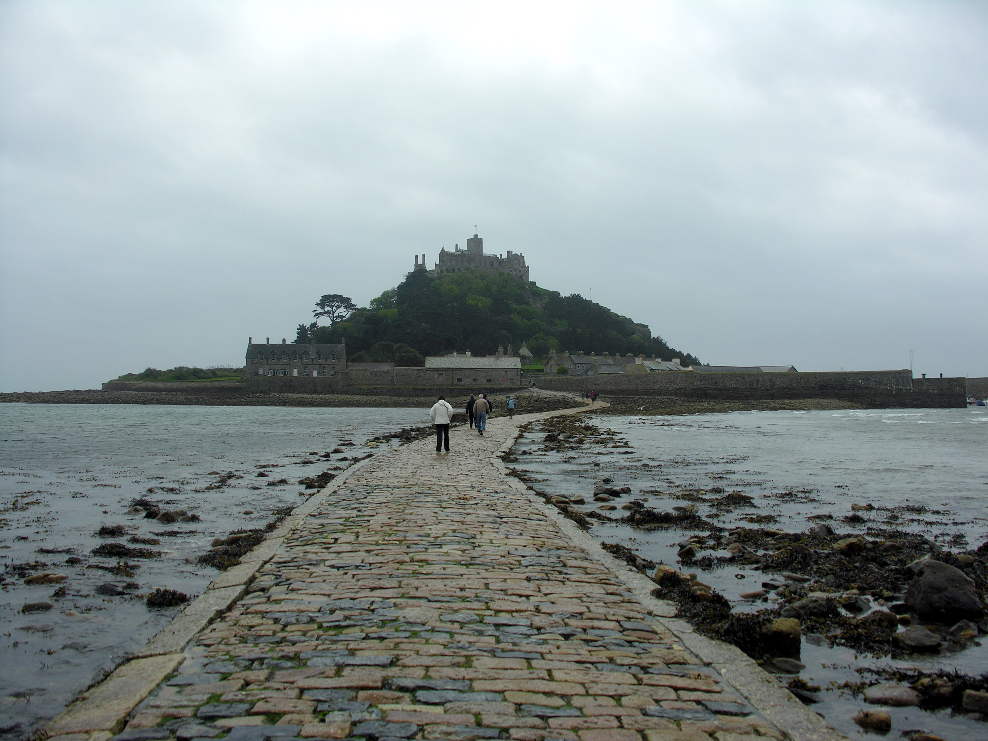 A view of St Michael's Mount in Penwith, Cornwall, United Kingdom. This view is looking at the island from the tidal causeway.